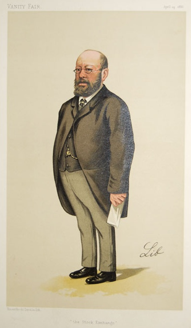 Caricature of Lionel Louis Cohen. Caption reads "the Stock Exchange".